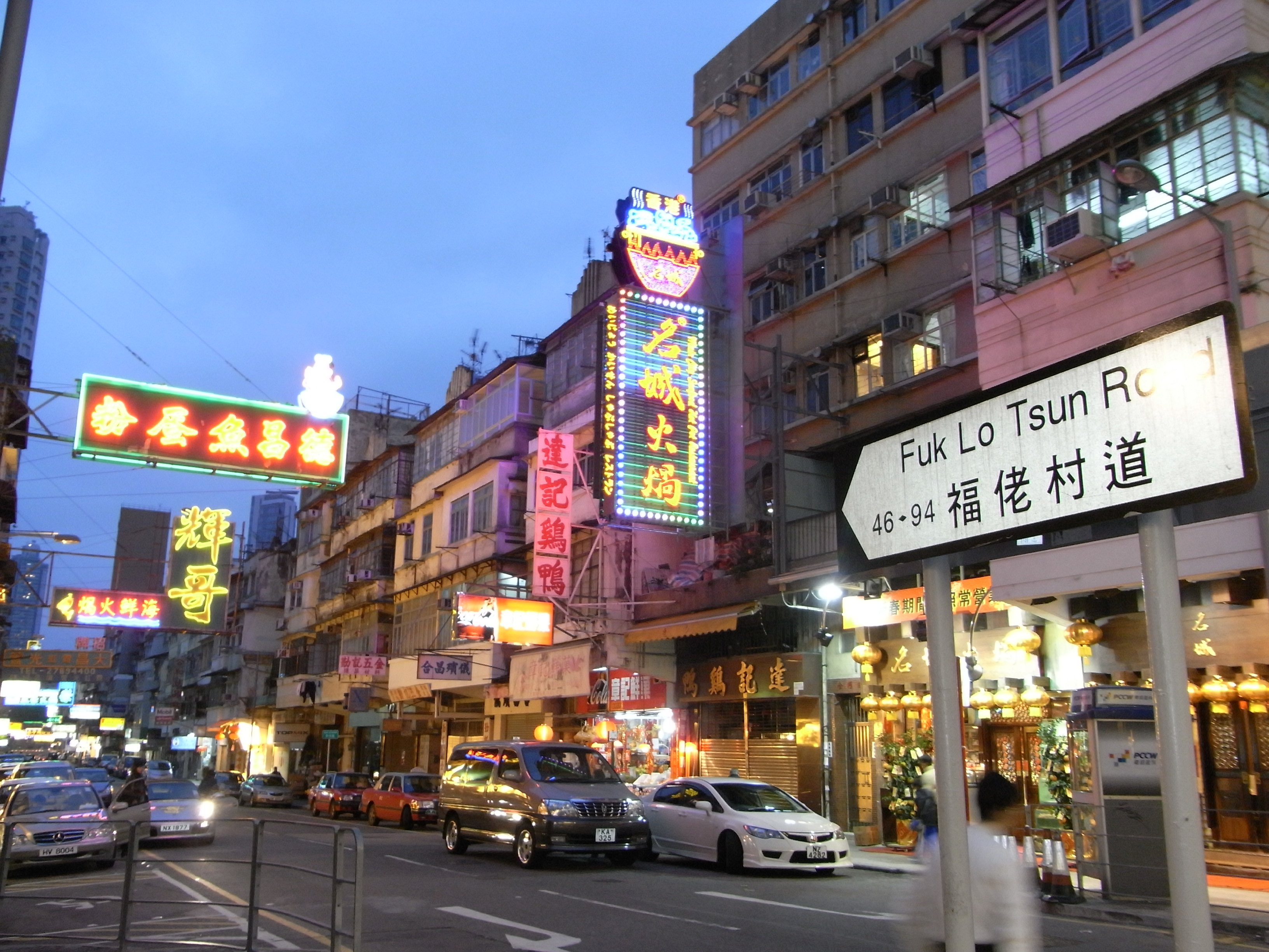 九龍城 福佬村道